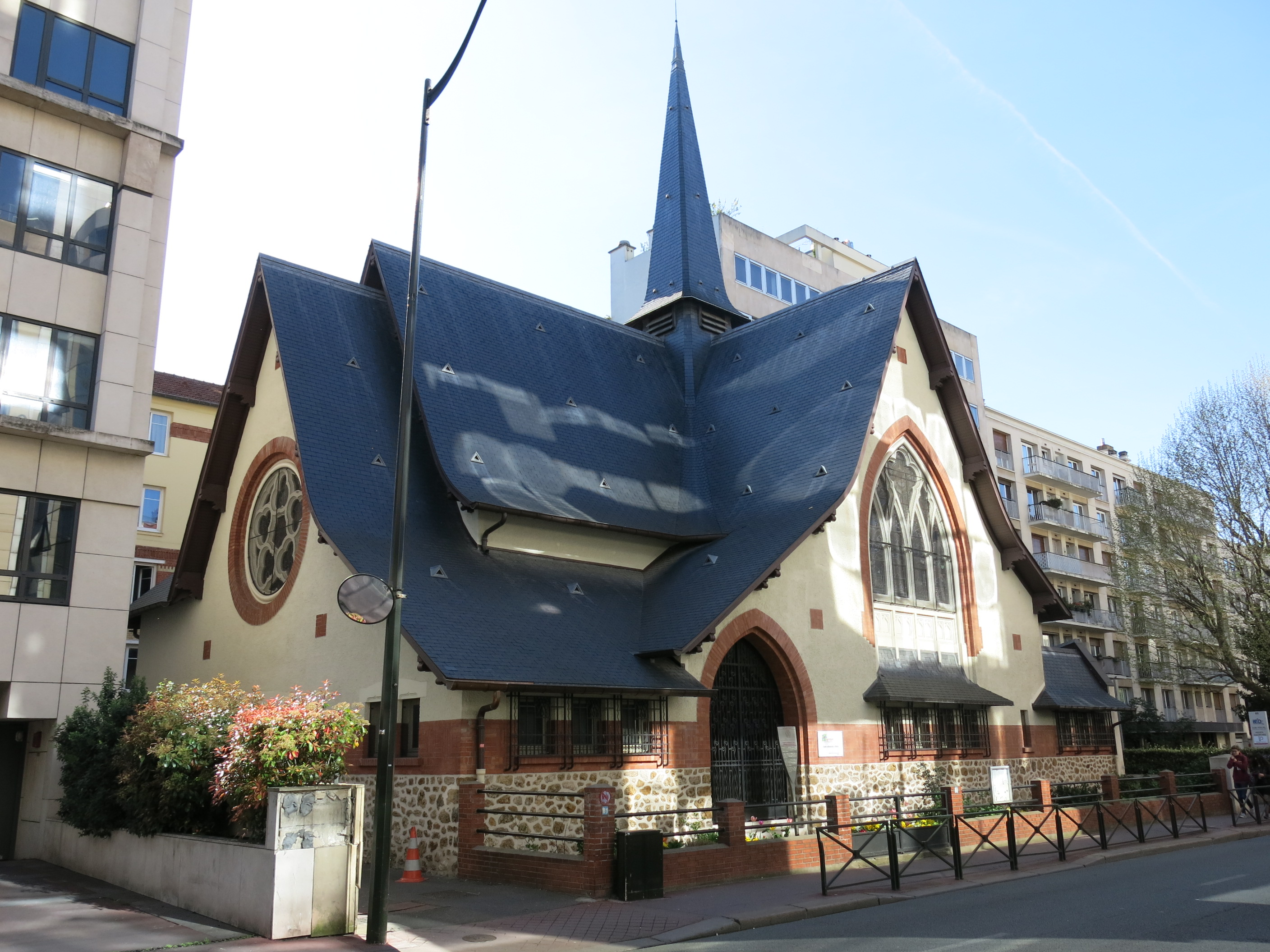 Protestant temple of the reformated church of la Petite Étoile (=the small star) in Levallois (Hauts-de-Seine, France).